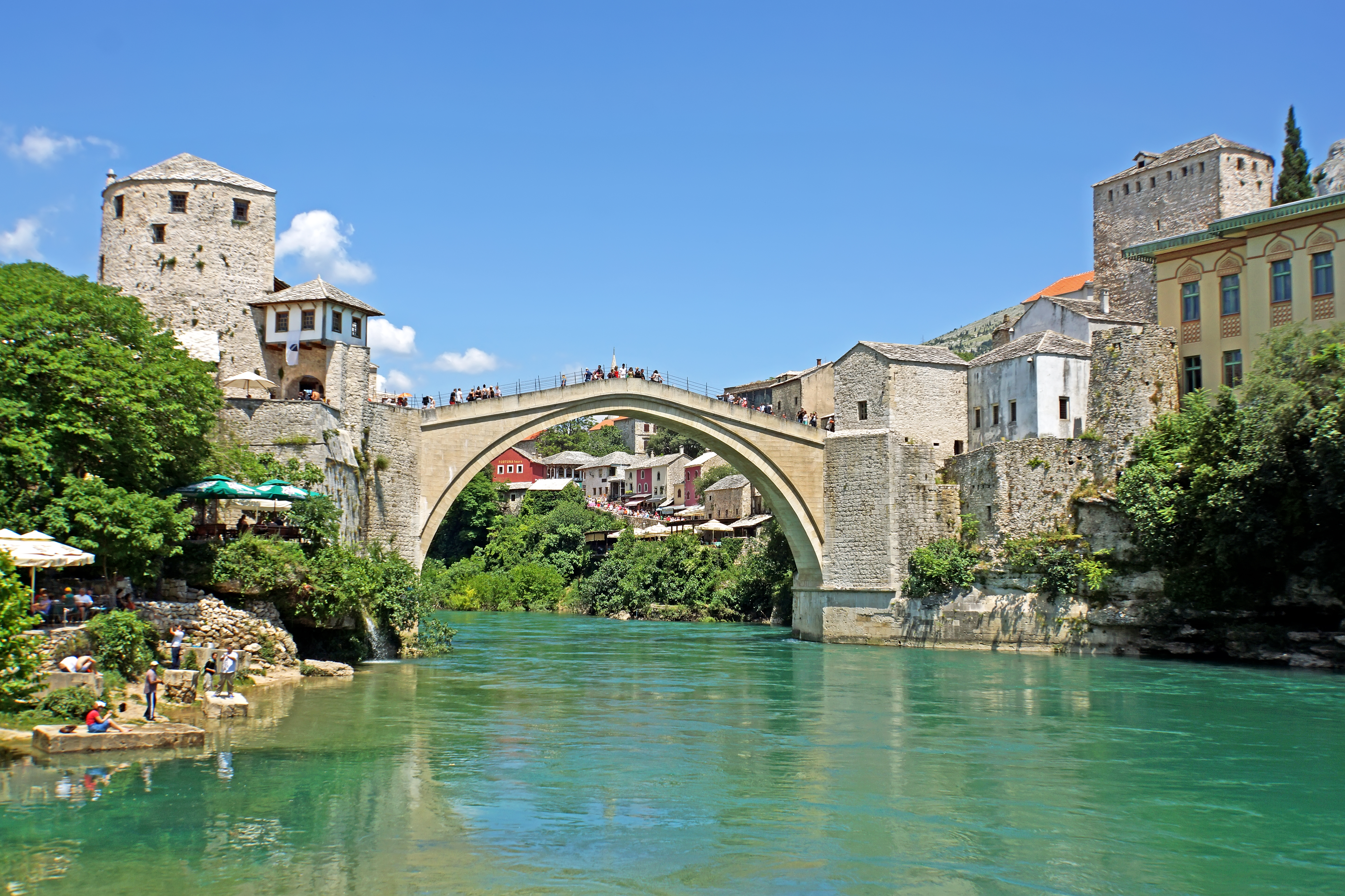 PLEASE,invitations or self promotion in your comments, THEY WILL BE DELETED. My photos are FREE for anyone to use, just give me credit and it would be nice if you let me know, thanks - NONE OF MY PICTURES ARE HDR. This is the view and lighting I wanted of this world famous site. I had a hard time finding a way down to the water but here I was.. Stari Most (Old Bridge) is a reconstruction of a 16th-century Ottoman bridge that crosses the Neretva river. The Old Bridge stood for 427 years, until it was destroyed on 9 November 1993 by Bosnian Croat forces during the Croat–Bosniak War. The rebuilt bridge opened on 23 July 2004. One of the country's most recognizable landmarks, it is also considered one of the most exemplary pieces of Islamic architecture in the Balkans. The Old Bridge is hump-backed, 4 metres (13 ft 1 in) wide and 30 metres (98 ft 5 in) long, and dominates the river from a height of 24 m (78 ft 9 in). Two fortified towers protect it: the Helebija tower on the northeast and the Tara tower on the southwest, called "the bridge keepers". It is traditional for young men to leap from the bridge into the Neretva. This is a very risky feat and only the most skilled and best trained divers will attempt it. It dates back to the time the bridge was built, but the first recorded instance of someone diving off the bridge is from 1664.